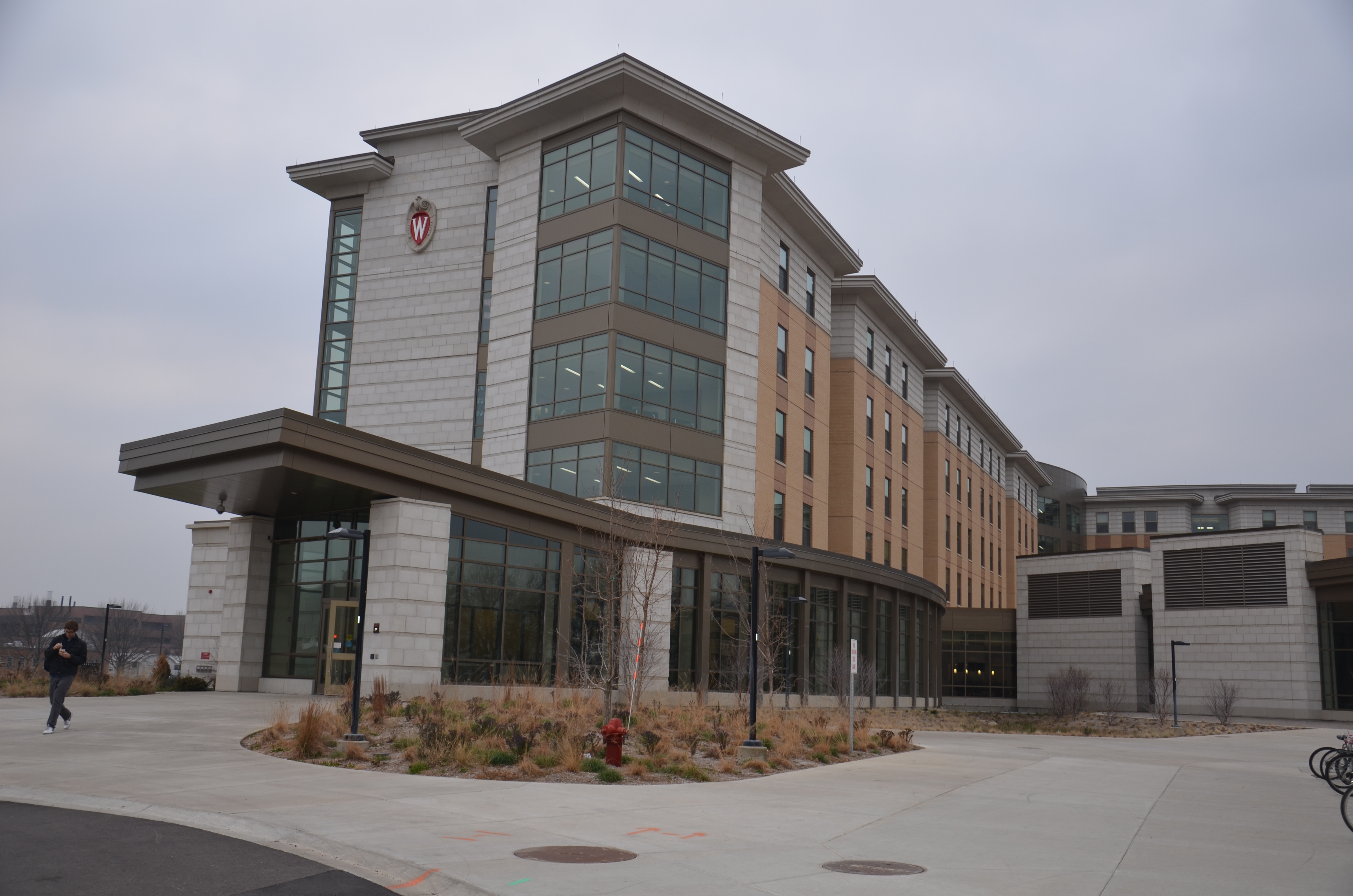 Dejope Residence Hall, University of Wisconsin-Madison campus